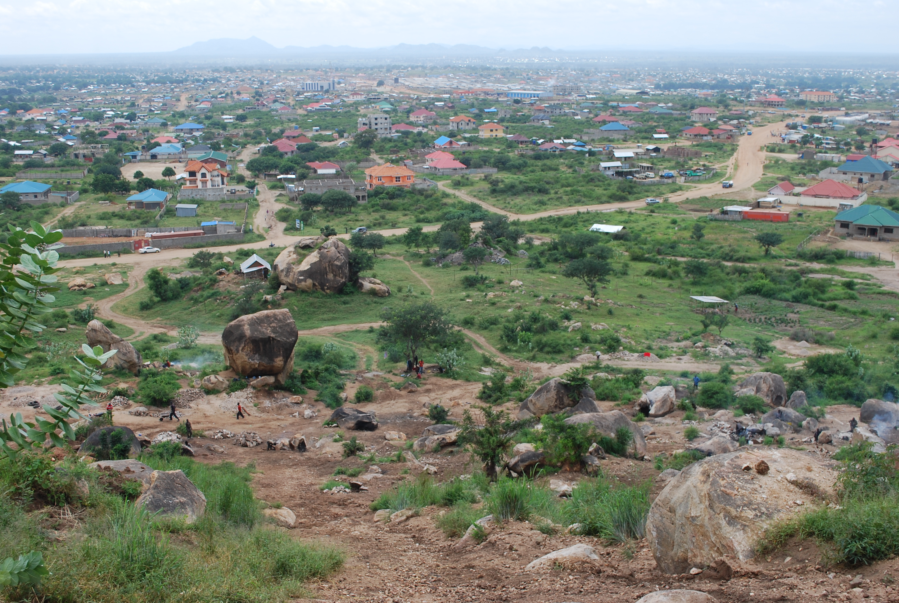 South Sudan (August2011)